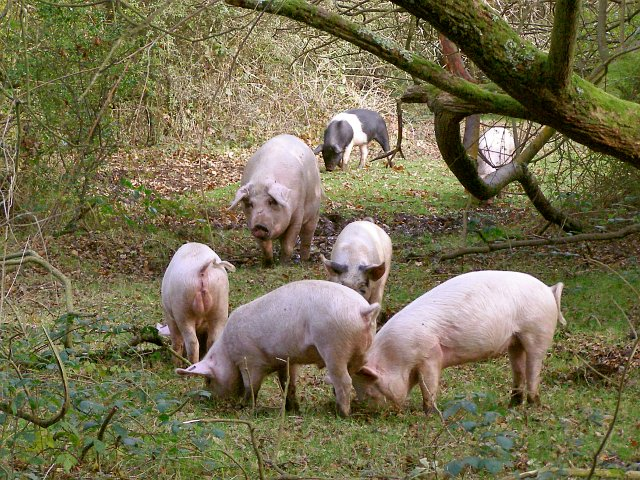 Pig and piglets in woodland alongside Ober Water, New Forest A strip of riverine woodland follows the course of Ober Water, and at its edges it can be a bit scrubby - as shown in this photo. These pigs have come into the woodland from the neighbouring heath in search of food and are rooting in the soft soil and eating acorns from the oaks. Each year the pigs (which belong to New Forest commoners) are allowed onto the open Forest for 60 days, known as "pannage" season, to eat acorns which would otherwise poison the ponies.